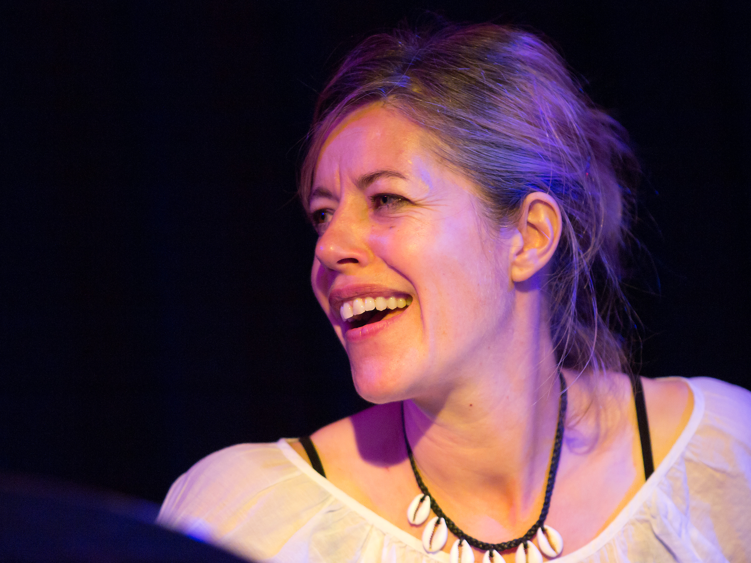 Benita Haastrup, Jazz drummer; Picture taken in Jazz Club Unterfahrt, Munich/Bavaria